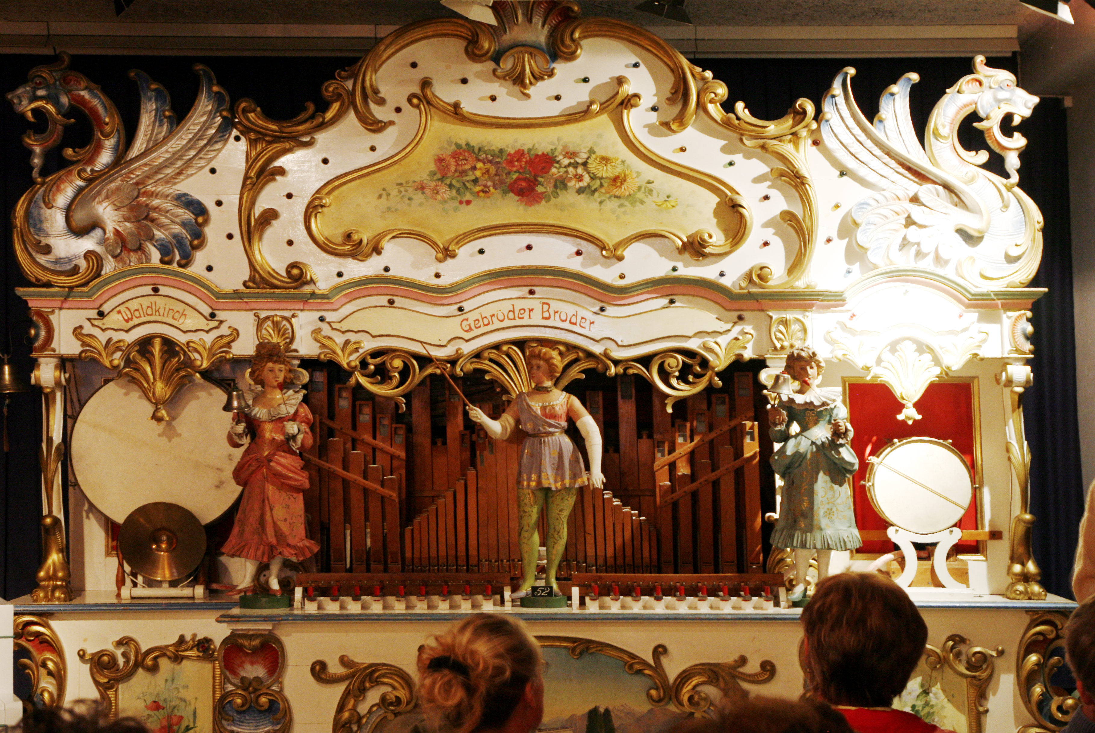 Musée Baud